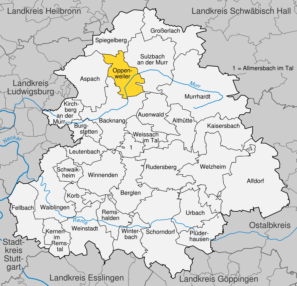 position of Oppenweiler within the Rems-Murr-Kreis, Baden-Württemberg, Germany